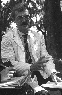 Professor Mario Crocco explaining a topic during an outdoors lecture in the Neurobiology Research Center